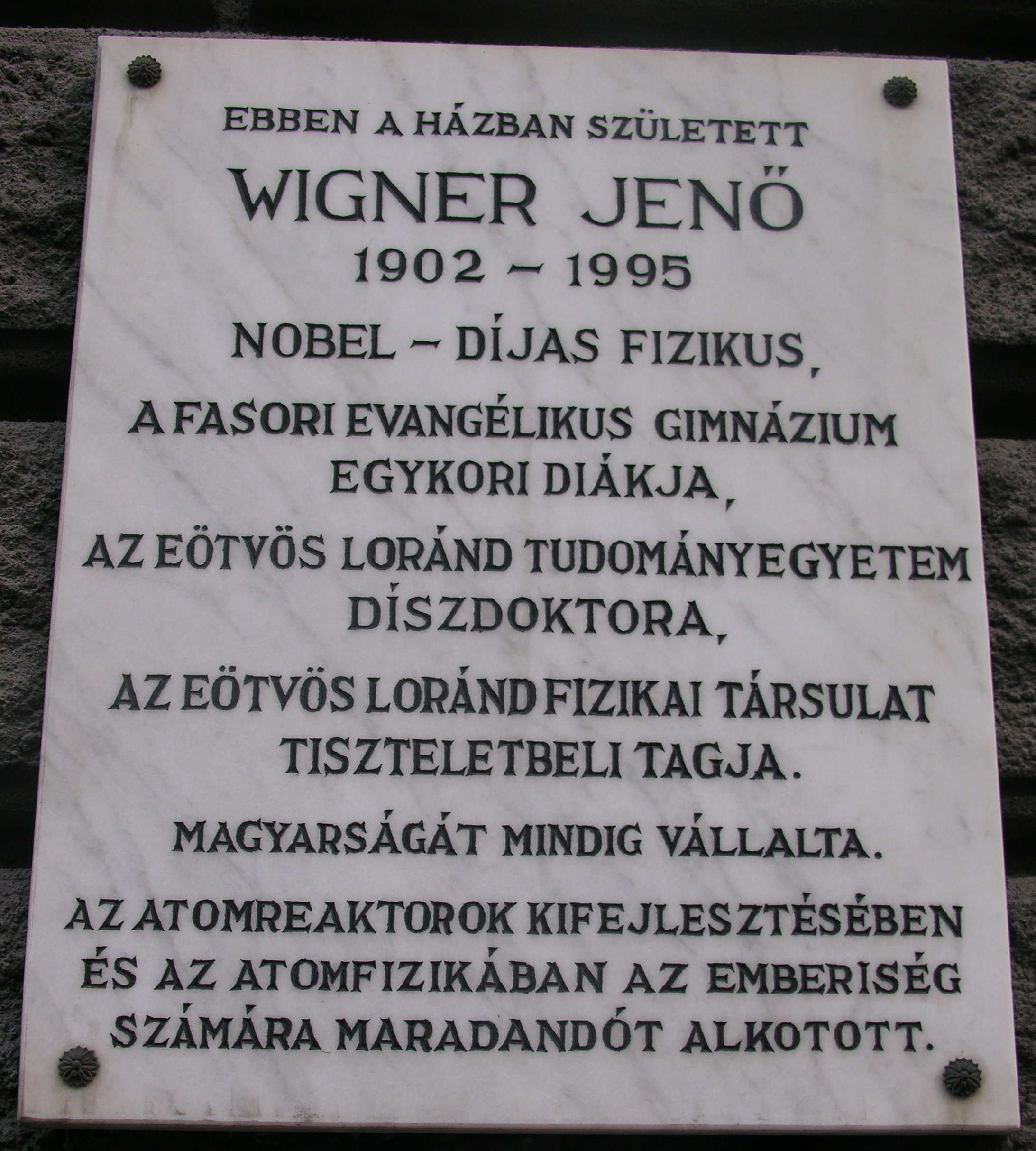 Commemorative plaque of Eugene Wigner in Budapest District VI, Király Street No 76